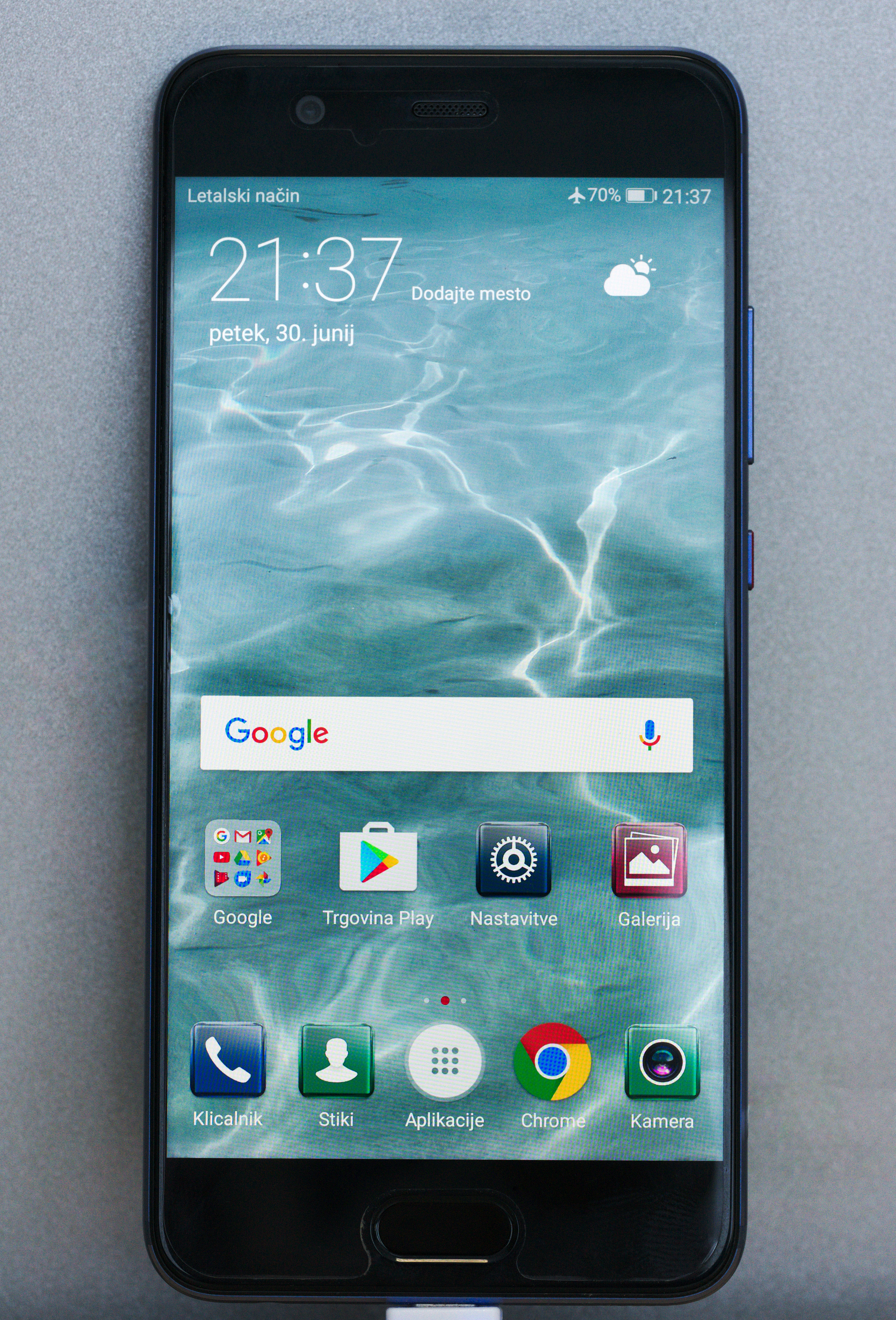 Huawei P10 front view